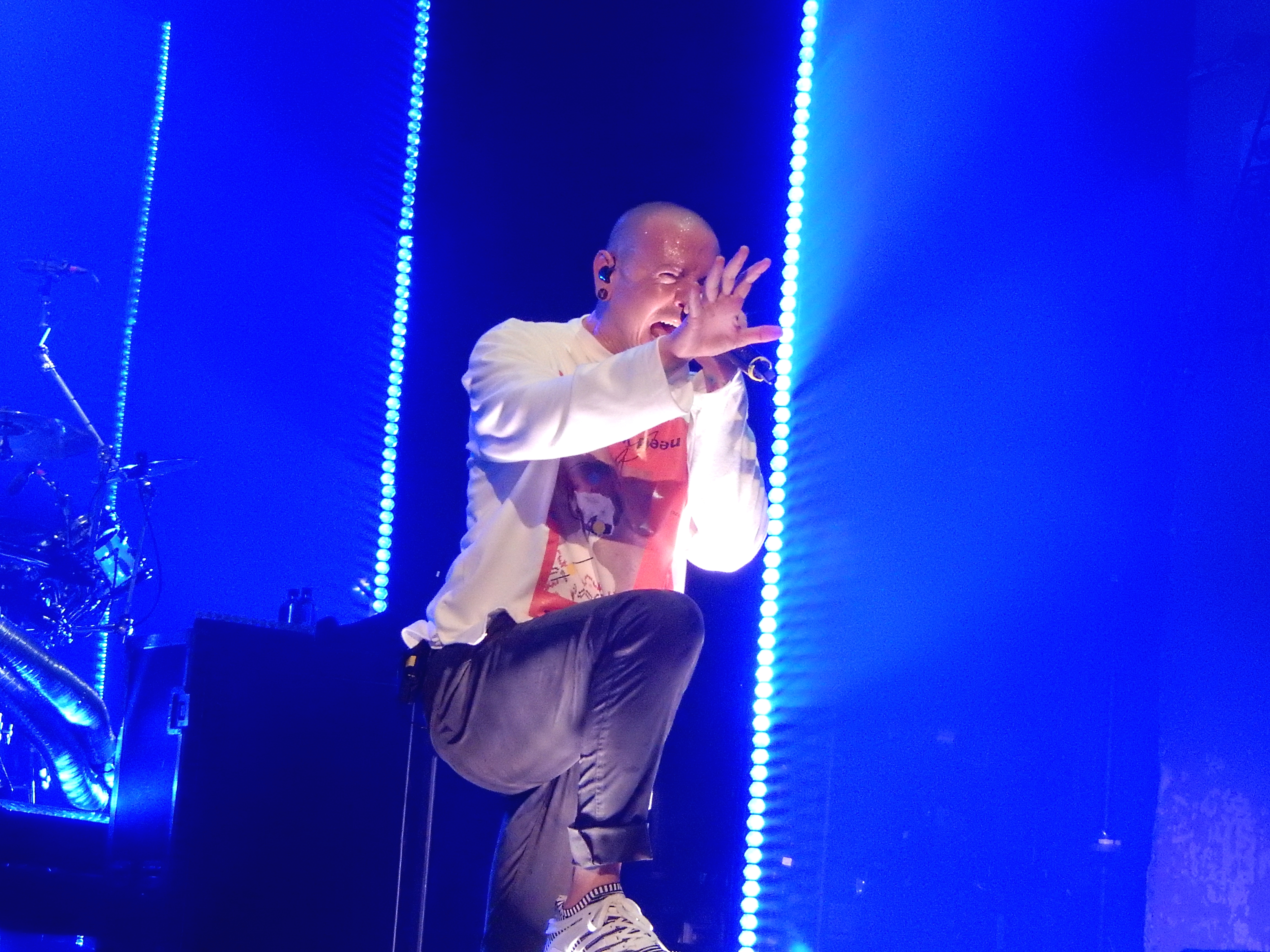 Linkin Park, Brixton Academy, London